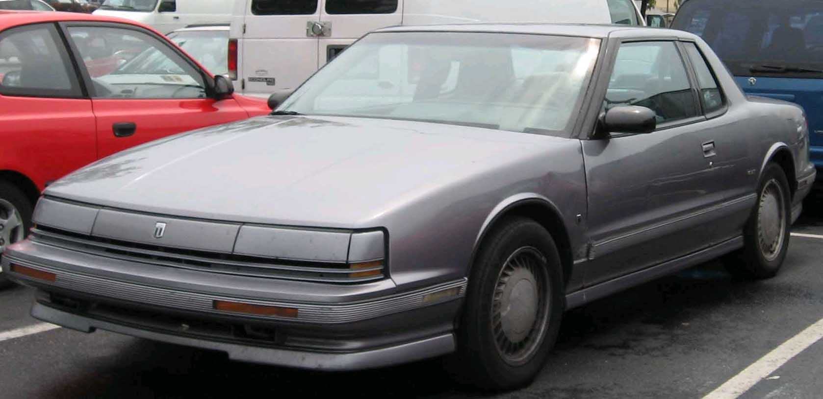 1986-1992 Oldsmobile Toronado photographed in USA.